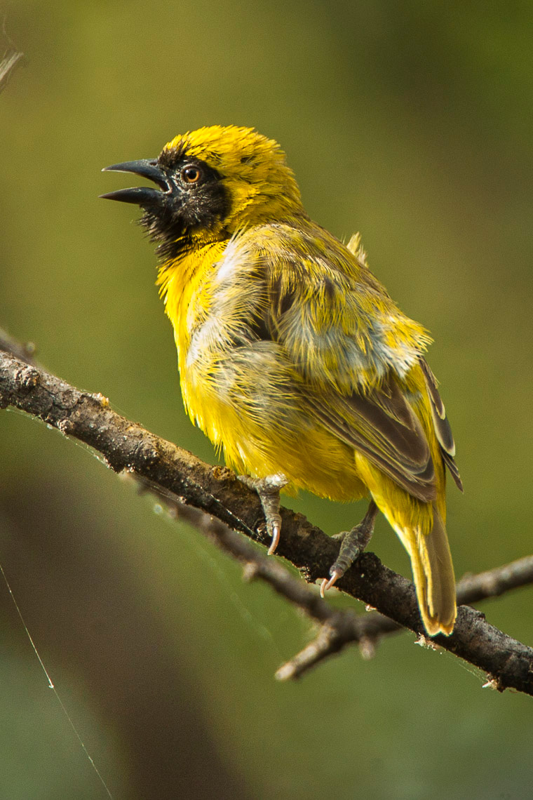 Little Weaver - Baringo - Kenya_NH8O1263